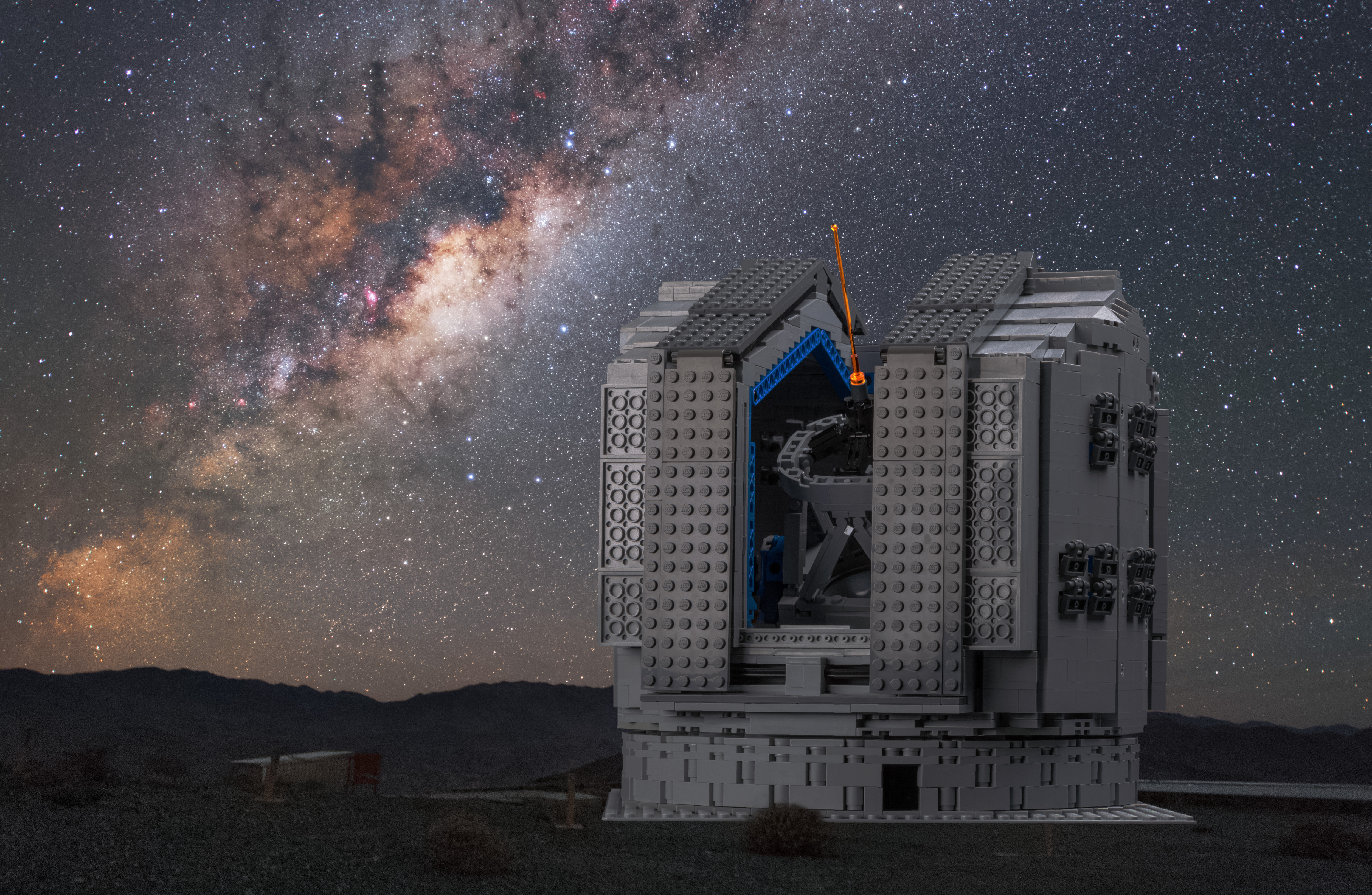 Frans Snik’s model of the VLT is set against a background photograph from the actual telescope site in Chile’s Atacama Desert, with the Milky Way rising majestically into the sky above.